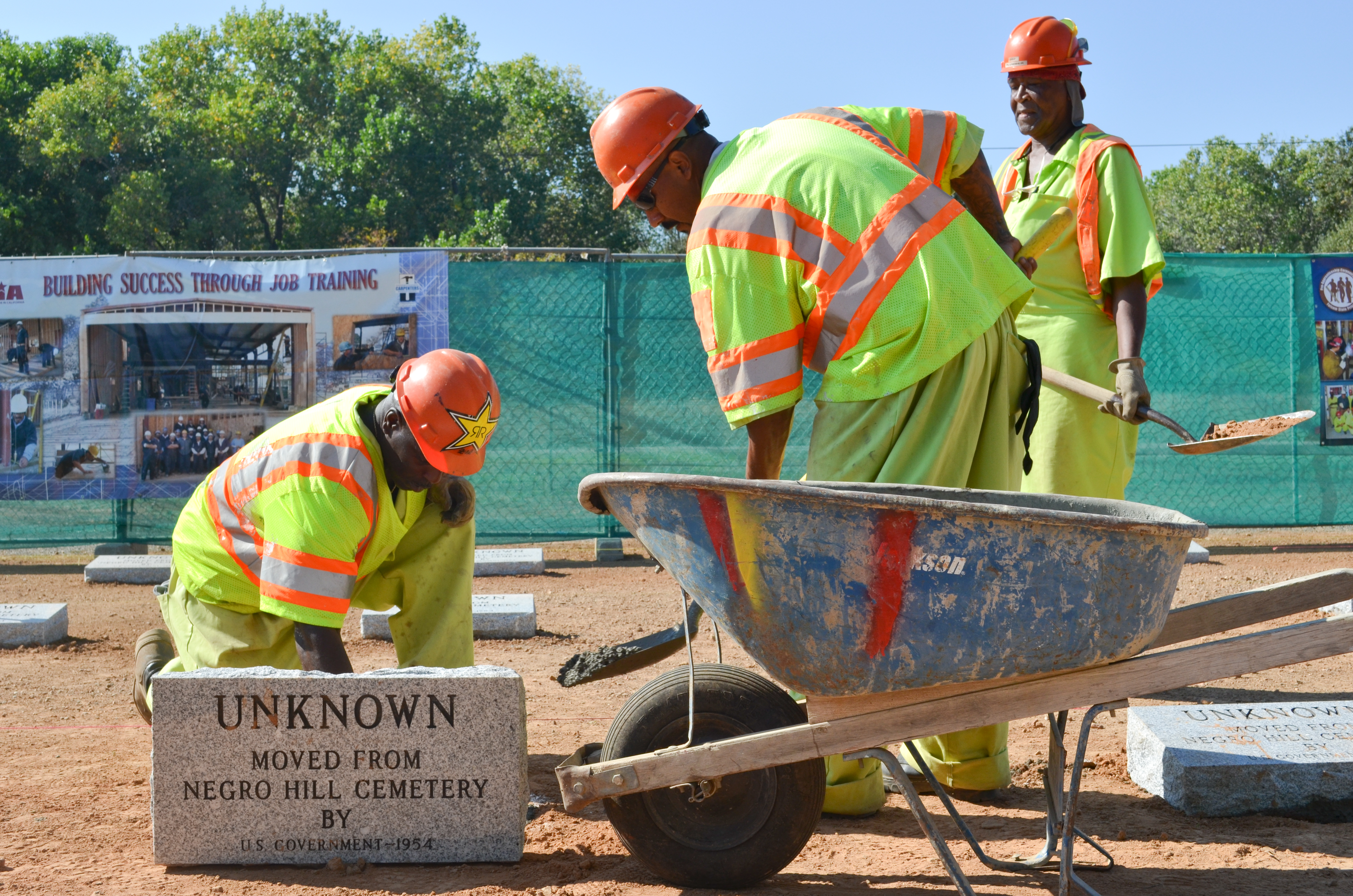 Folsom Prison inmates working under the California Prison Industry Authority place new grave markers at Mormon Island Relocation Cemetery in El Dorado Hills, Calif., Oct. 19, 2011, replacing original markers that contained an offensive racial epithet. The U.S. Army Corps of Engineers Sacramento District moved the 36 graves from the original Negro Hill Cemetery to the relocation cemetery during the construction of Folsom Dam in 1954, and created the offensive markers. El Dorado County, which manages the cemetery, and the California Prison Industry Authority collaborated on the project to replace the markers. (U.S. Army Photo/Chris Gray-Garcia)